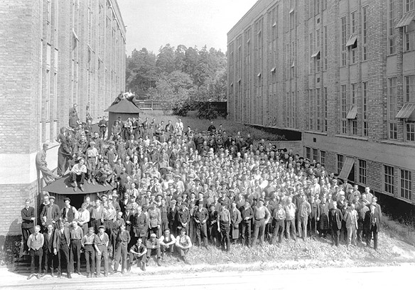 The entire staff in AGA Co. 1929. Location: AGA production plant at Lidingö, Sweden.